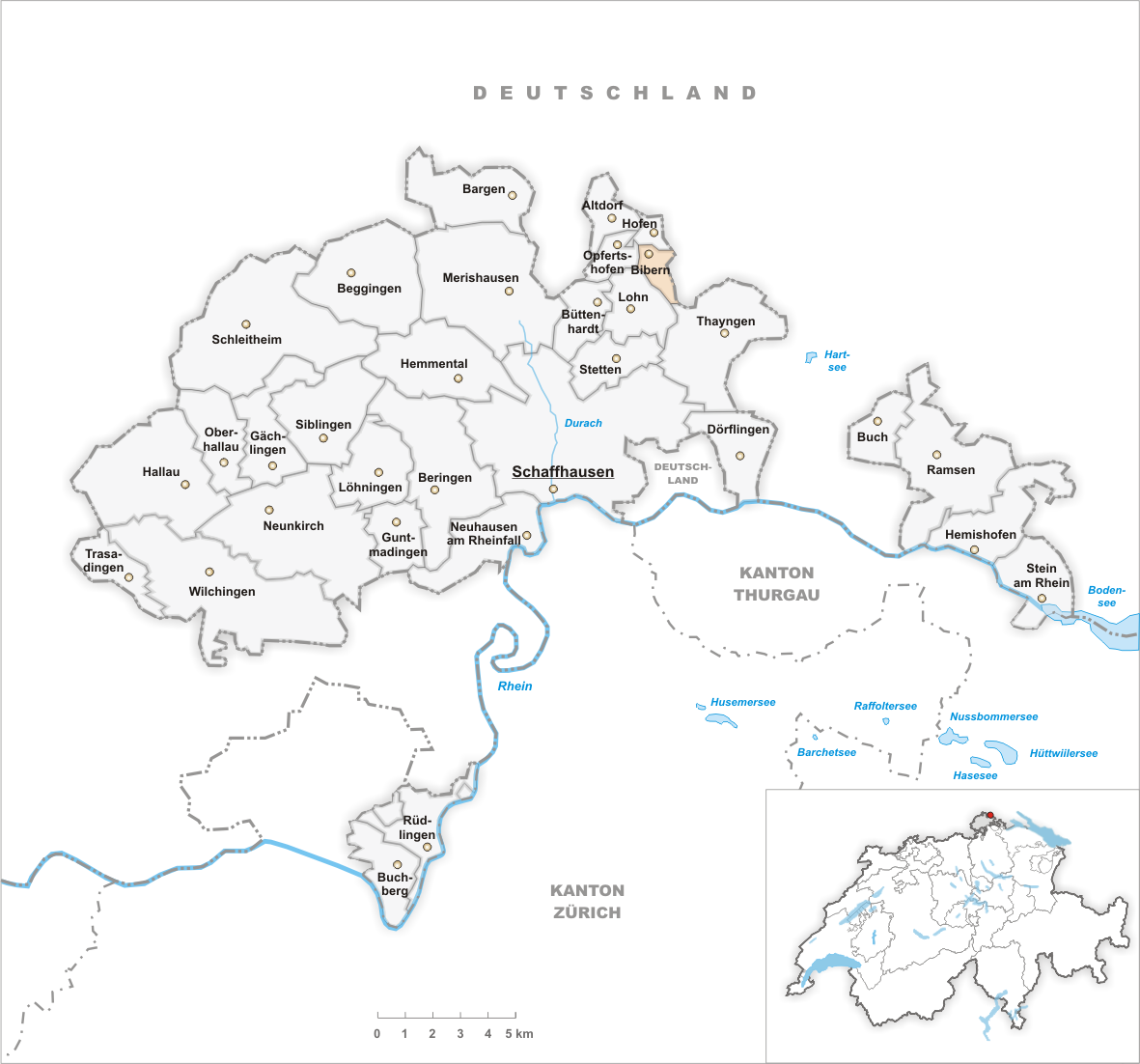 Municipality Bibern